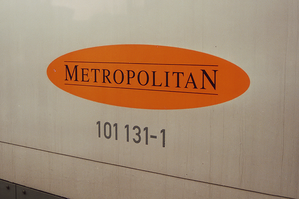 Logo of the former Metropolitan brand, a former express train system for business travellers.